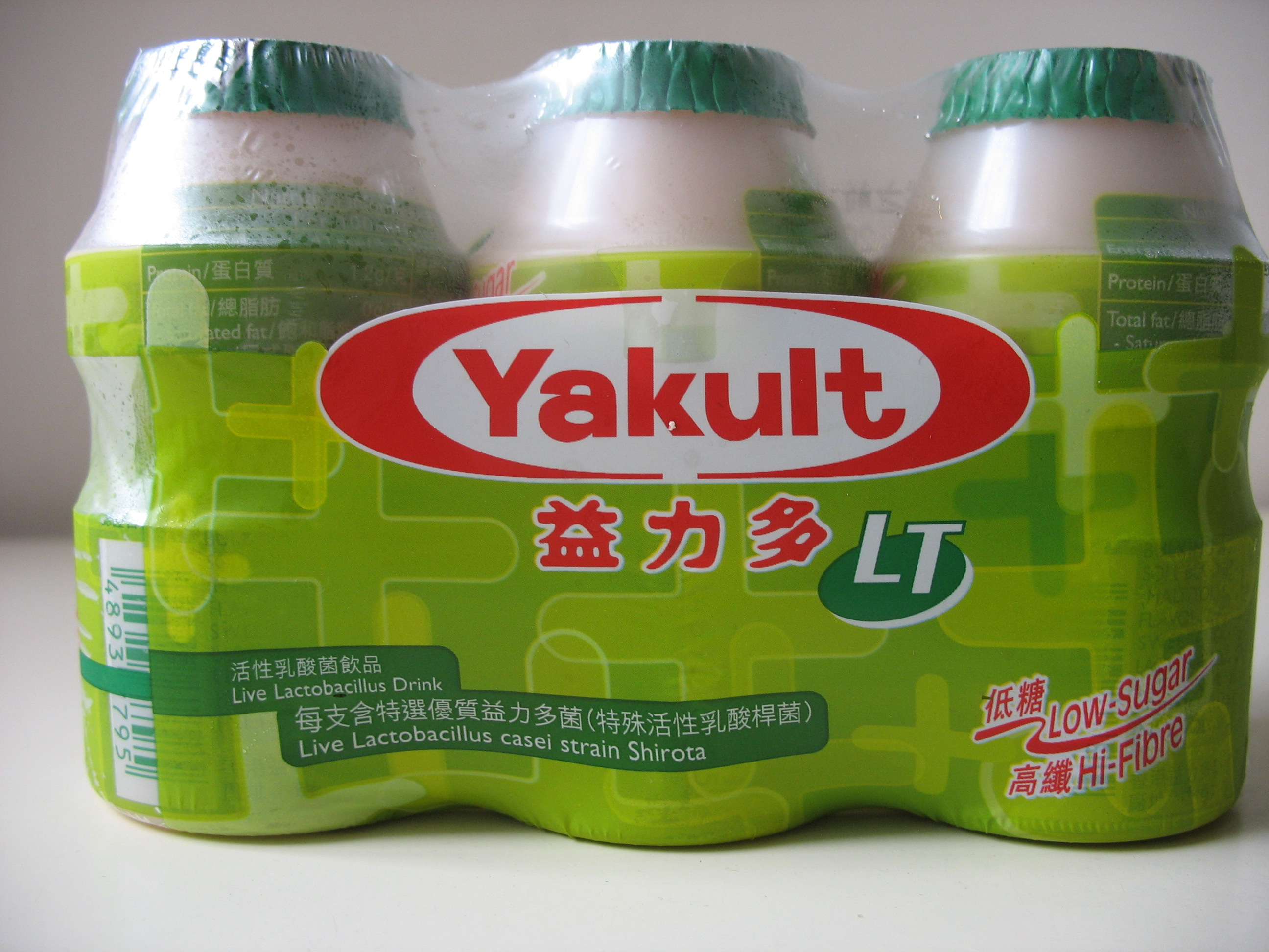 Pack of Hong Kong Yakult LT